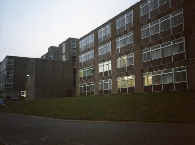 Polytechnic Of Wales Maths and Computing Department (J Block) 1986